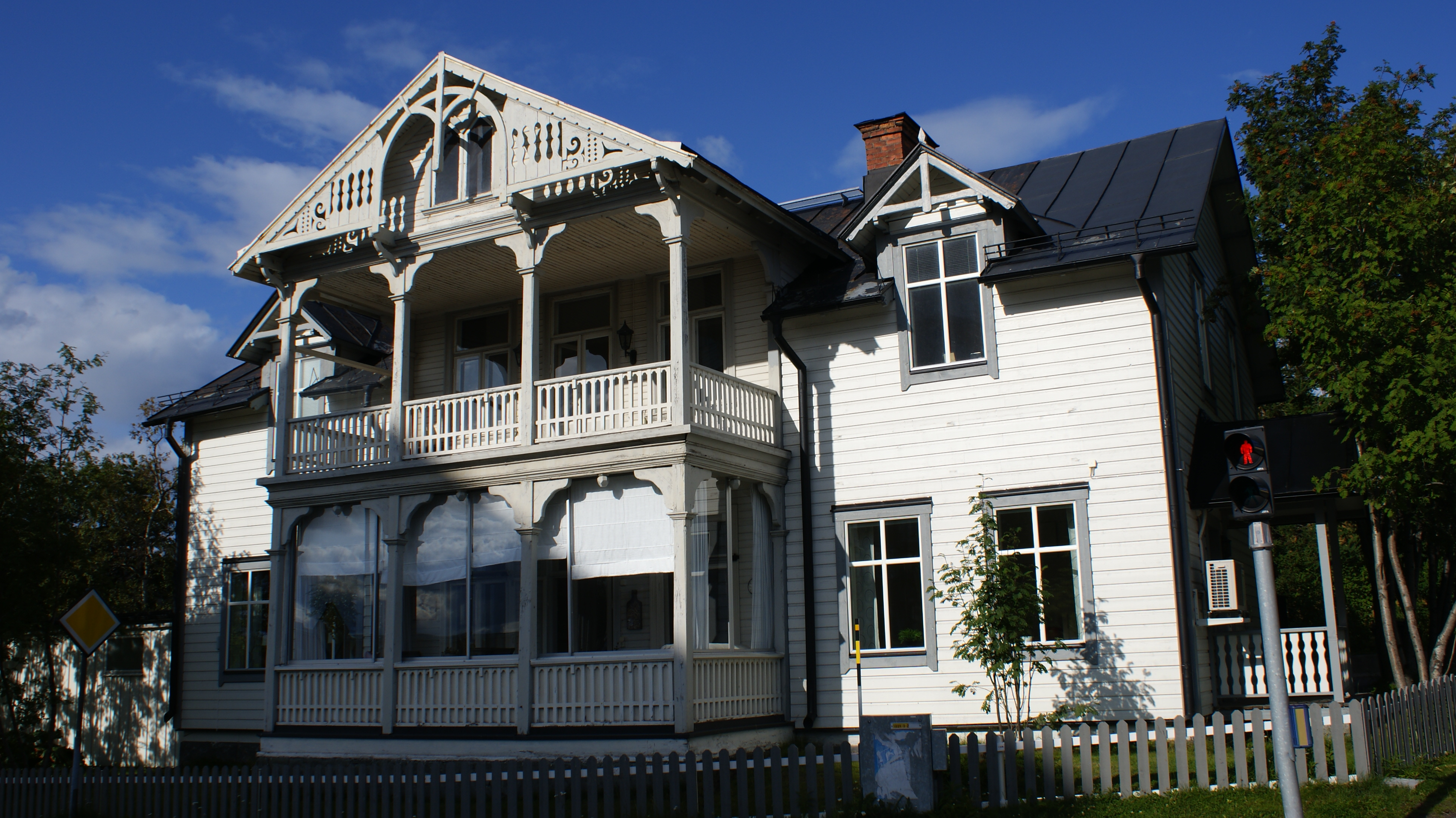 Stylish building in Kiruna centrum, Lappland, Norrland, Sweden.